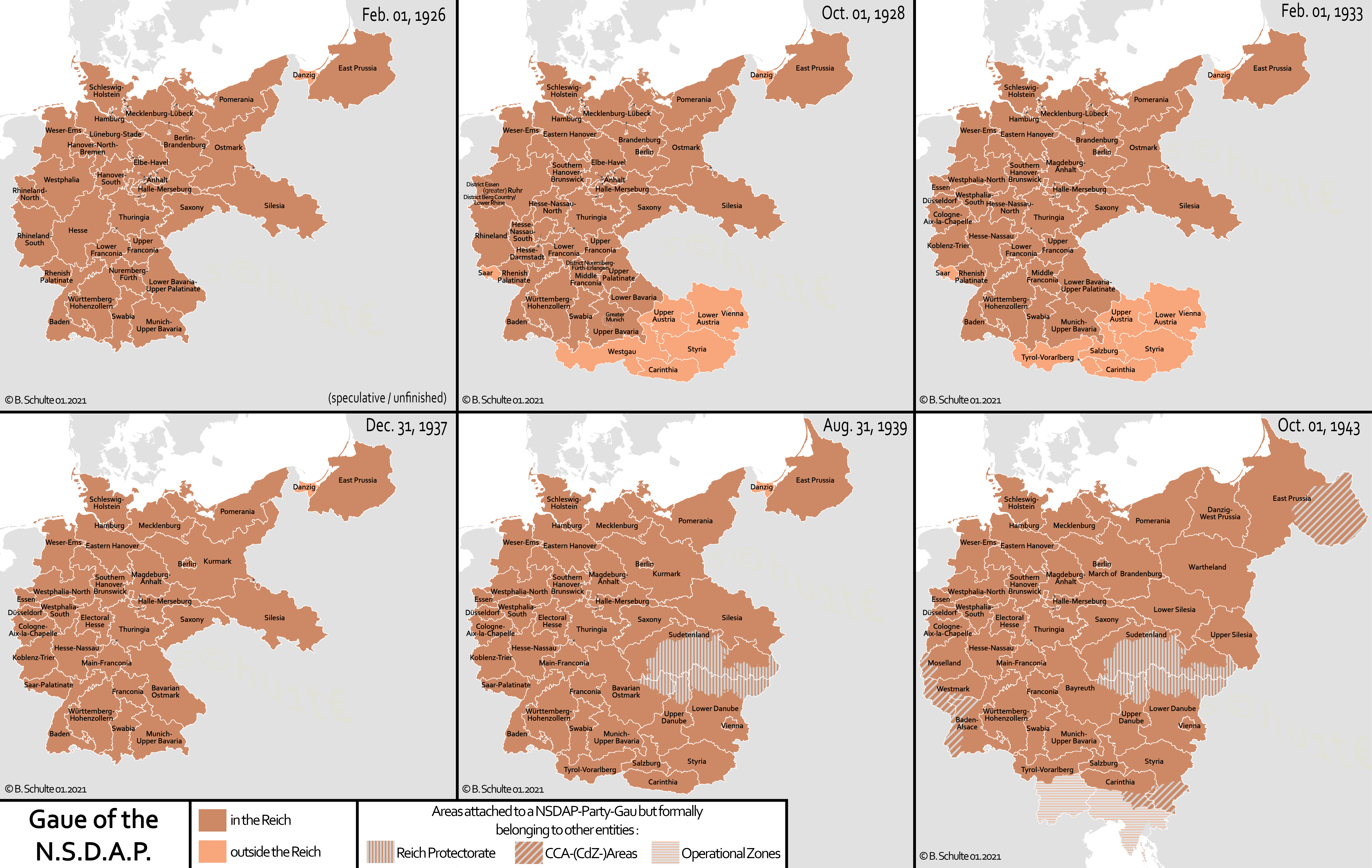 Maps of the party administrative organization of the NSDAP in Parteigaue (also outside of the German Empire). This is not identical with the state structure for example of Reichsgaue.